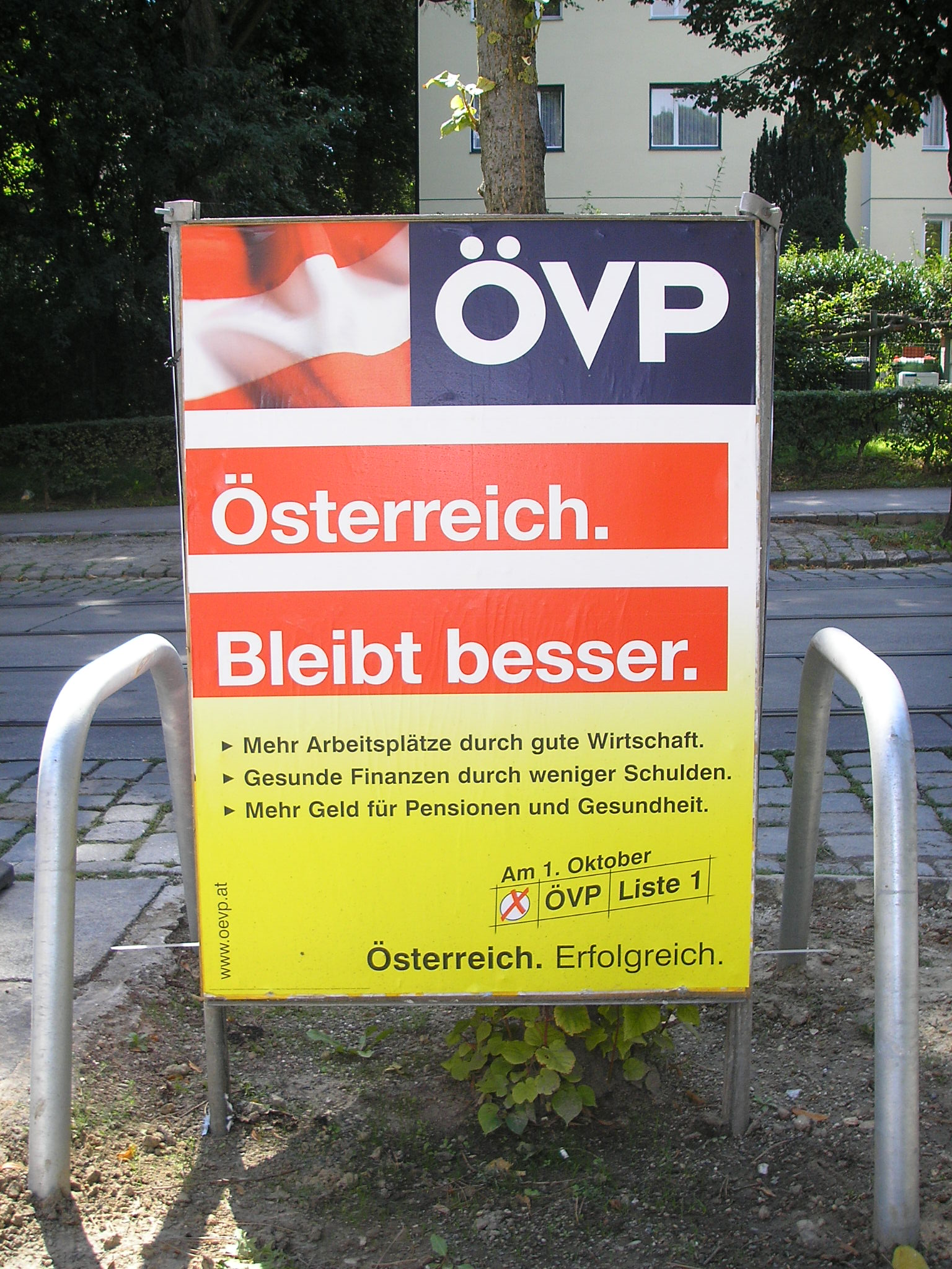 Image of an election poster of the conservative ÖVP party for the October 2006 elections to the Nationalrat (National Council) elections in Austria. Image taken in Vienna.